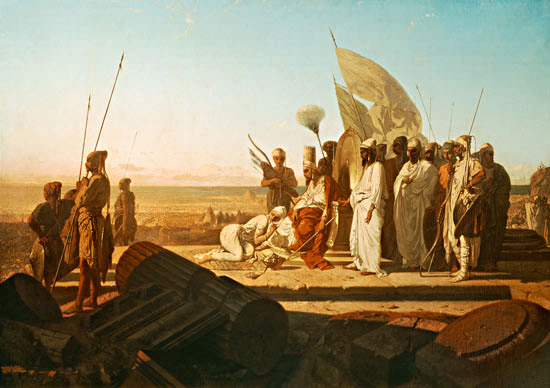 Xerses at the Hellespont